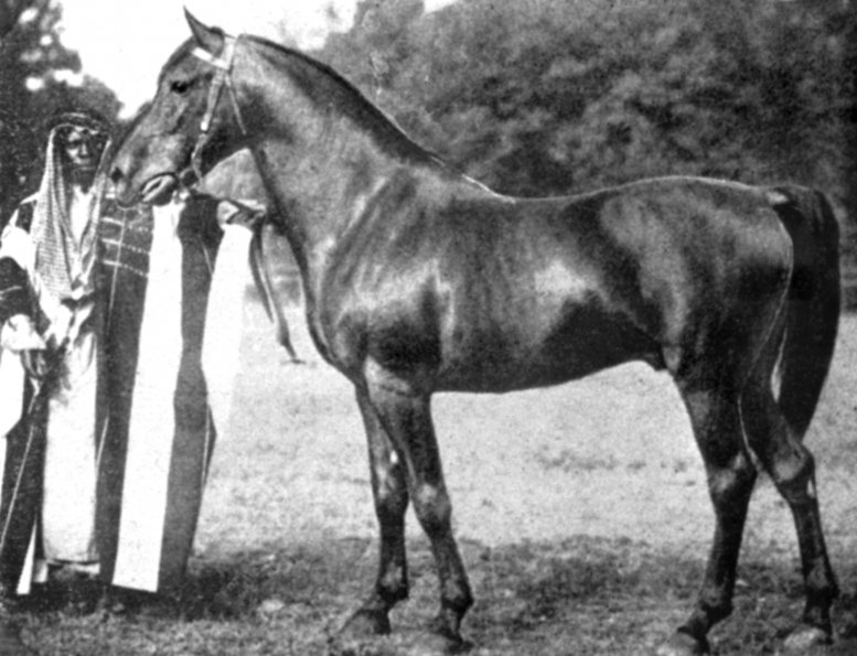 Arabian stallion Haleb 25, imported from the Syrian desert by Homer Davenport.